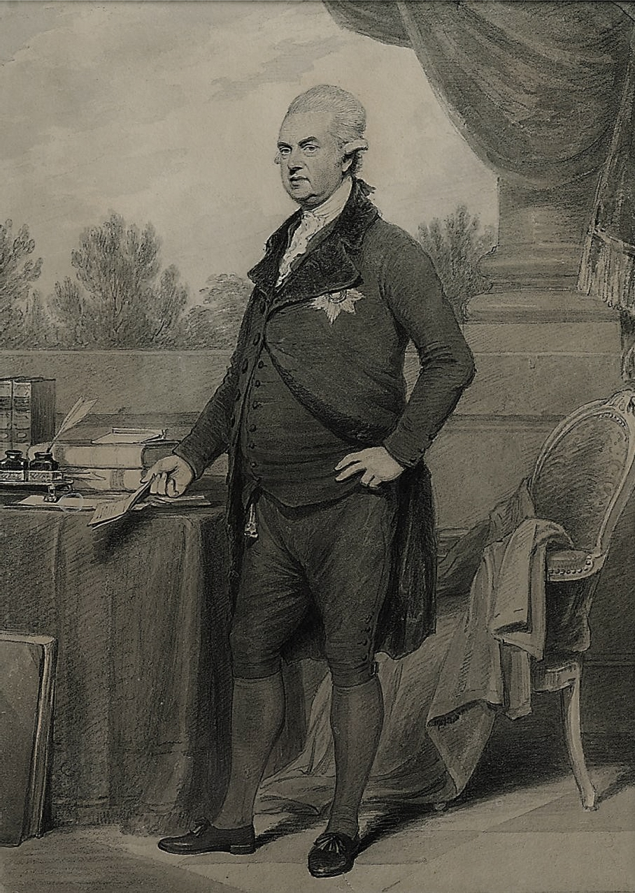 Portrait of George Macartney, 1st Earl of Macartney, K.B. (1737-1806), full-length, wearing the Garter Star, a letter in high right hand signed and dated 'Edridge 1801' (lower left) pencil and monochrome wash on paper 31.1 x 22.2 cm.